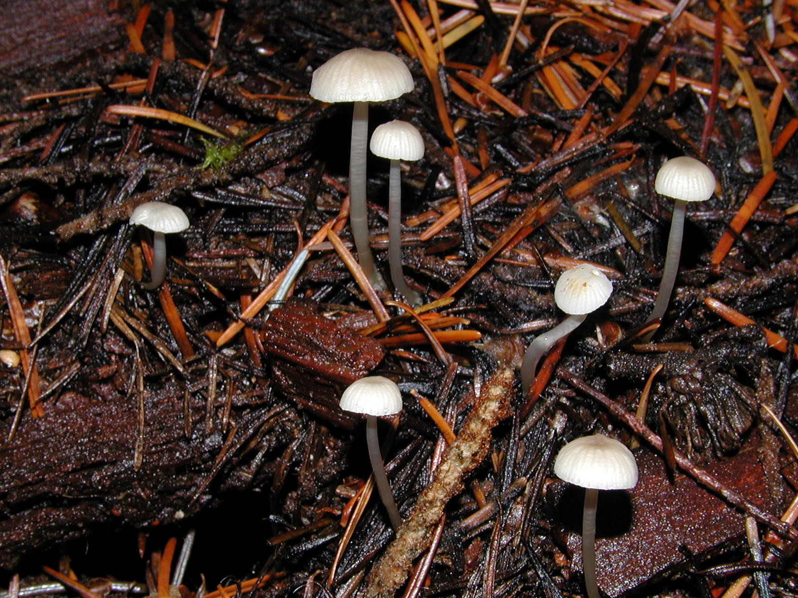 A photo of the mushroom Mycena rorida.